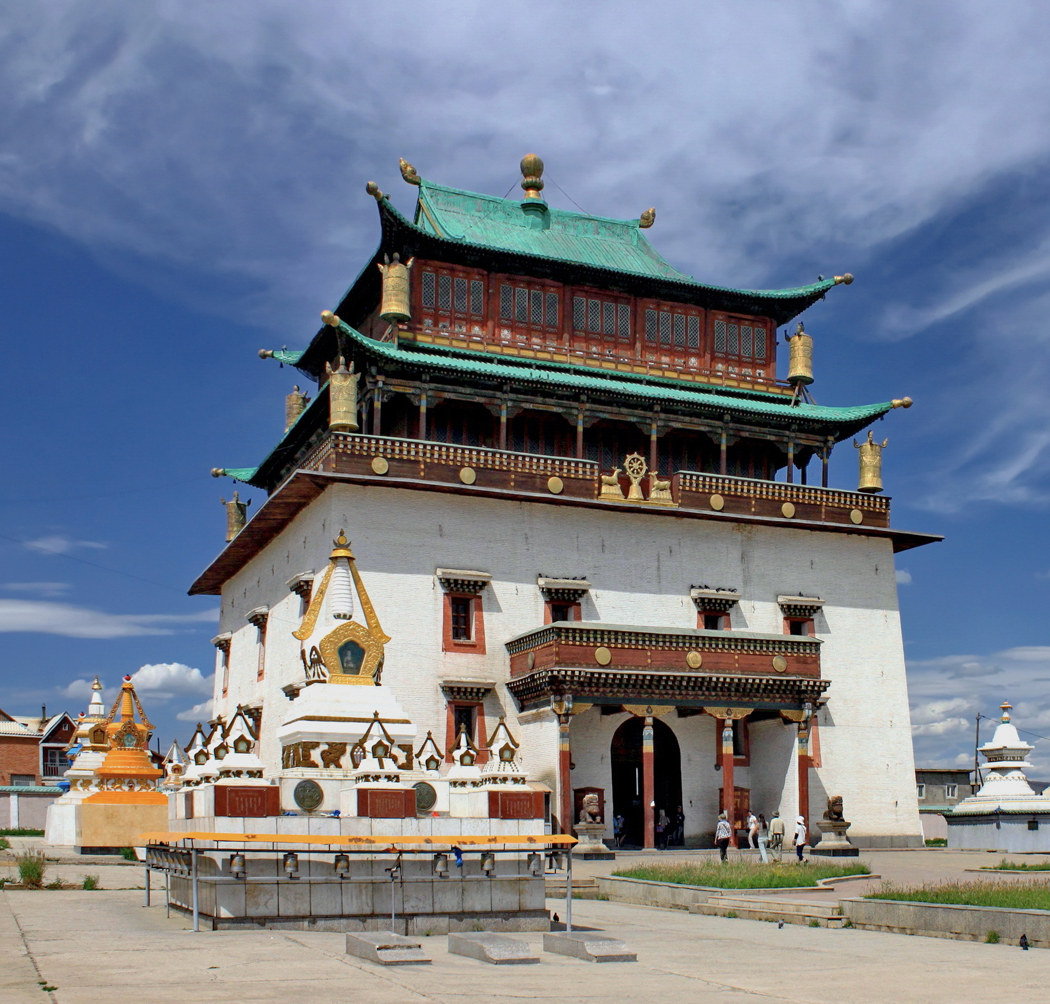 Megjid Janraisig temple. Gandantegchinlen Monastery, Ulan Bator, Mongolia.